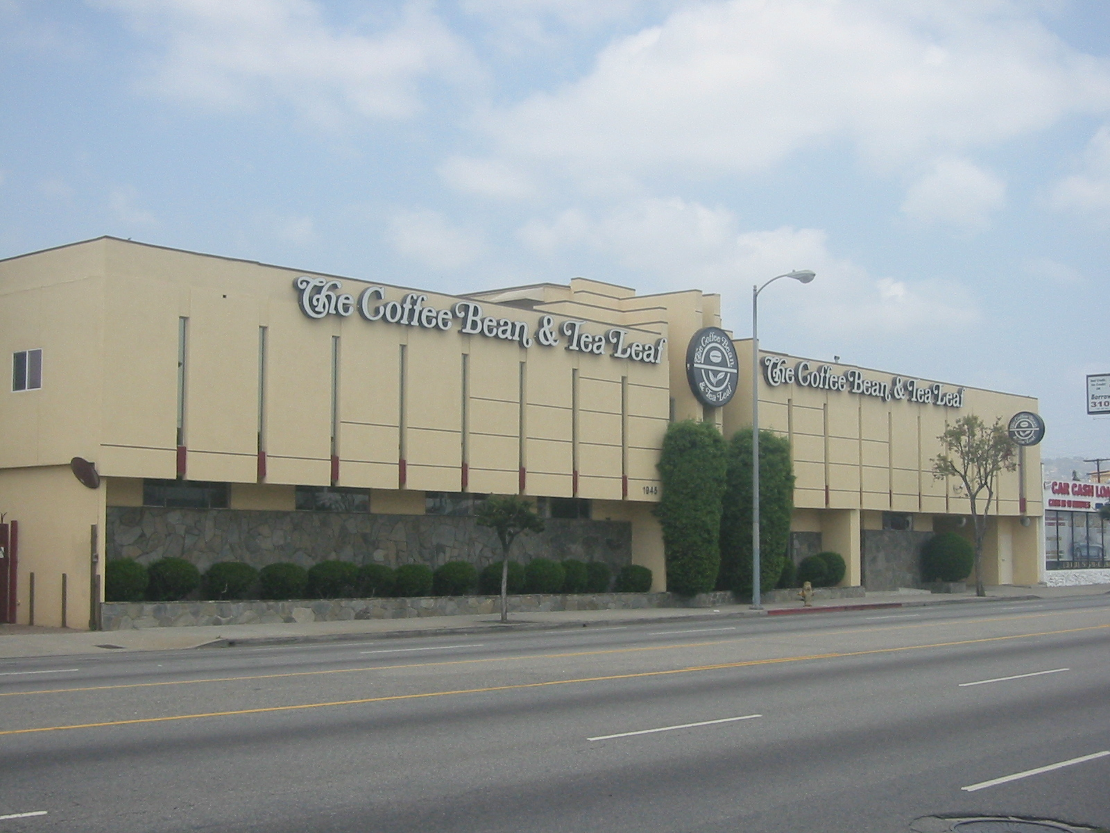 Coffee Bean & Tea Leaf headquarters - 1945 So. La Cienega Blvd. Los Angeles. CA 90034